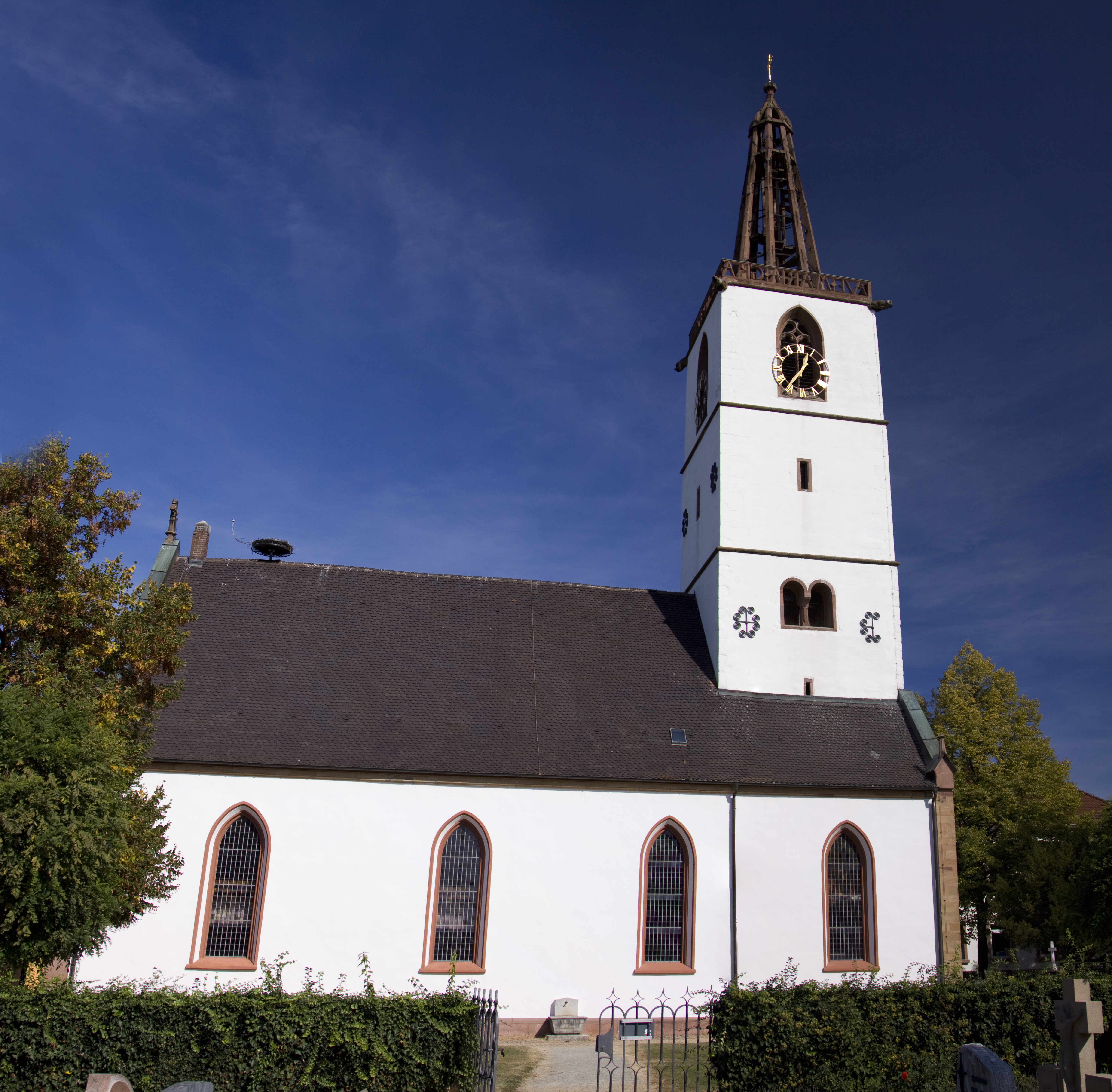 The "Georgskirche" in Denzlingen, near Freiburg (Germany). The image was shot in RAW with a circular filter. Afterwards adjustment of Curves, Brightness and Contrast.